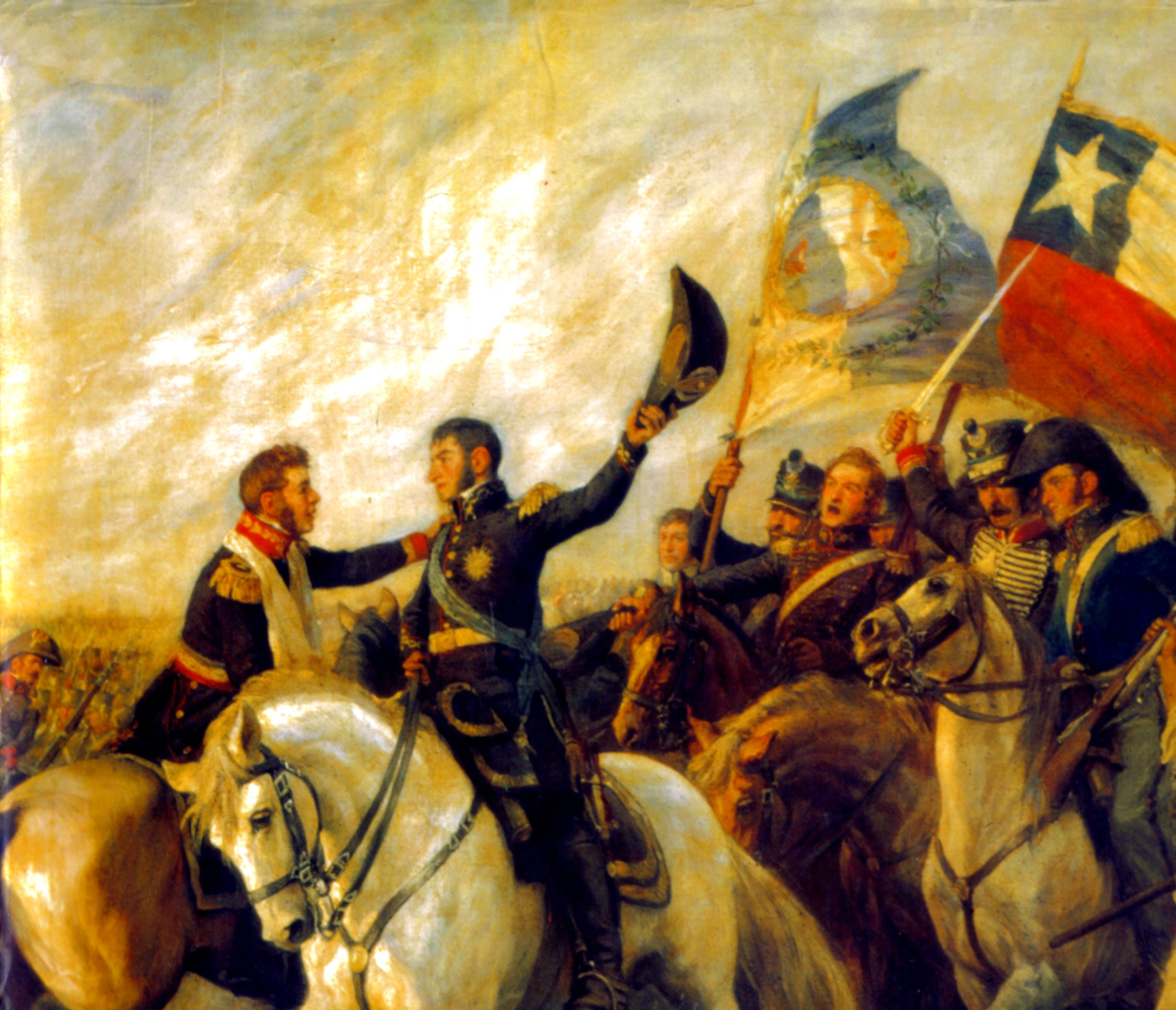 The "Embrace of Maipú" between José de San Martín y Bernardo O'Higgins after the victory in the Battle of Maipú, April 5th, 1818.